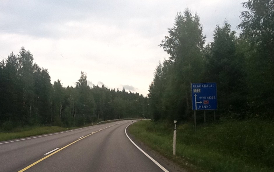 Finnish regional road 132 between Klaukkala and Vihtijärvi.